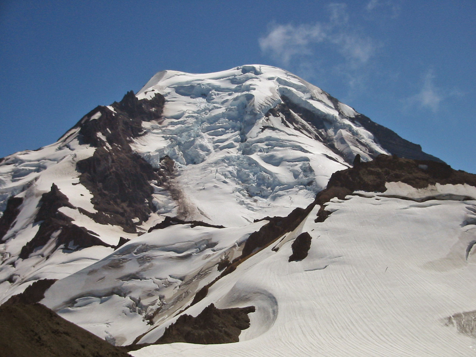 Roosevelt Glacier on the north face of Mount Baker. The ice cliff to the left of the ice fall and above the debris covering the glacier is 70 to 140 feet high. In the foreground, the small Bastile Glacier (lower right) covers the north face of point 7842 feet, the summit of Bastile Ridge. At its upper edge is an excellent example of a bergshrund, a crevasse that forms at the boundary between the stationary ice attached to the headwall and the glacier ice flowing downward.